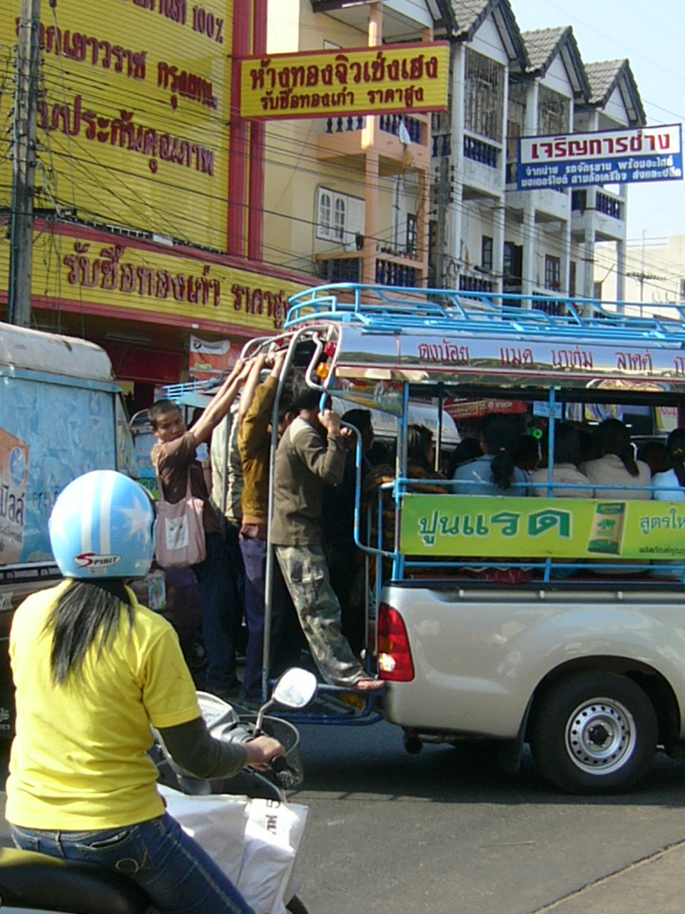 Crowded small sized Songthaew, seen in Sakon Nakhon, Thailand.